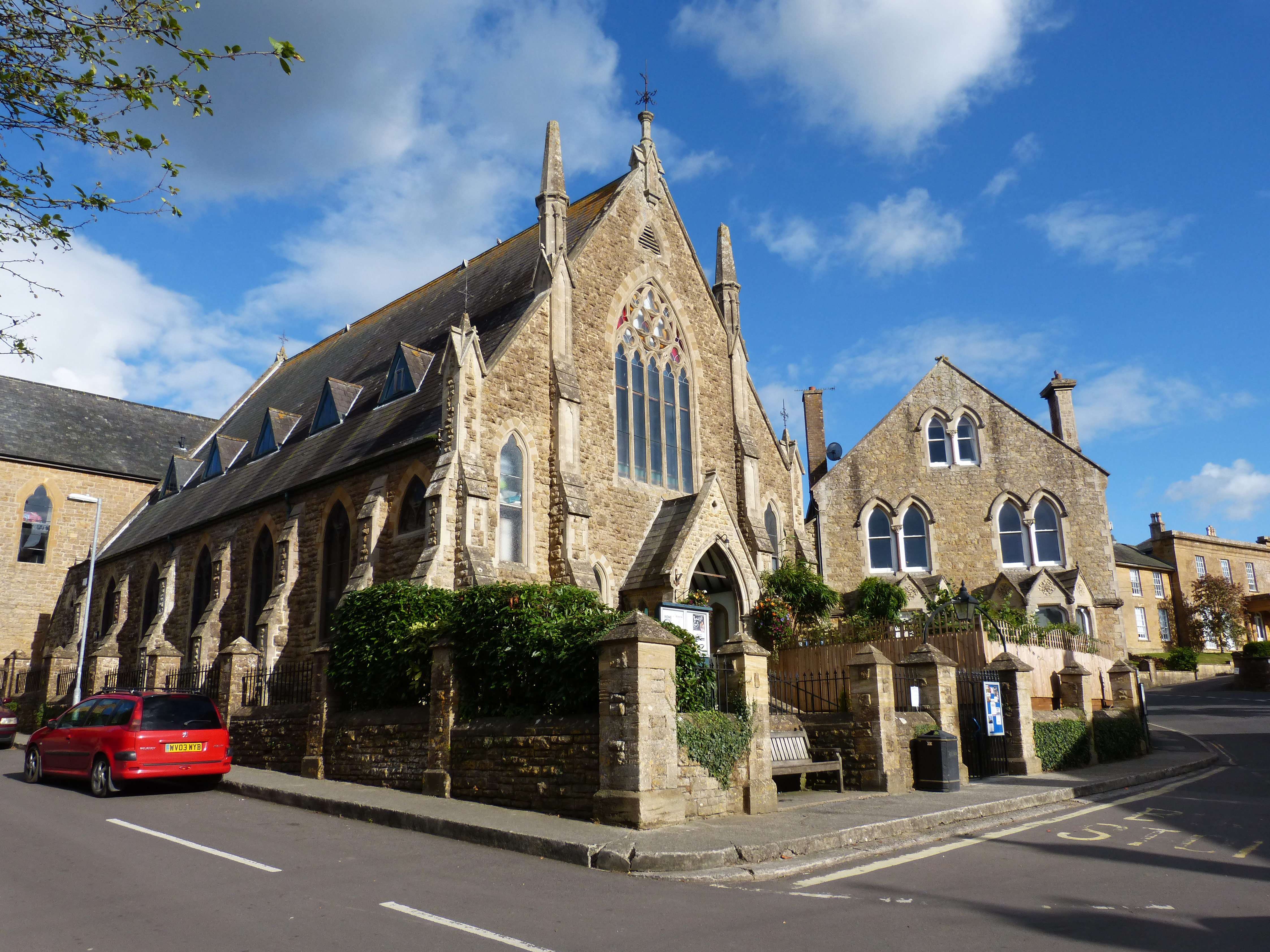 David Hall, South Petherton - a former United Reform Church, now an arts centre Wikidata has entry Q26629474 with data related to this item.